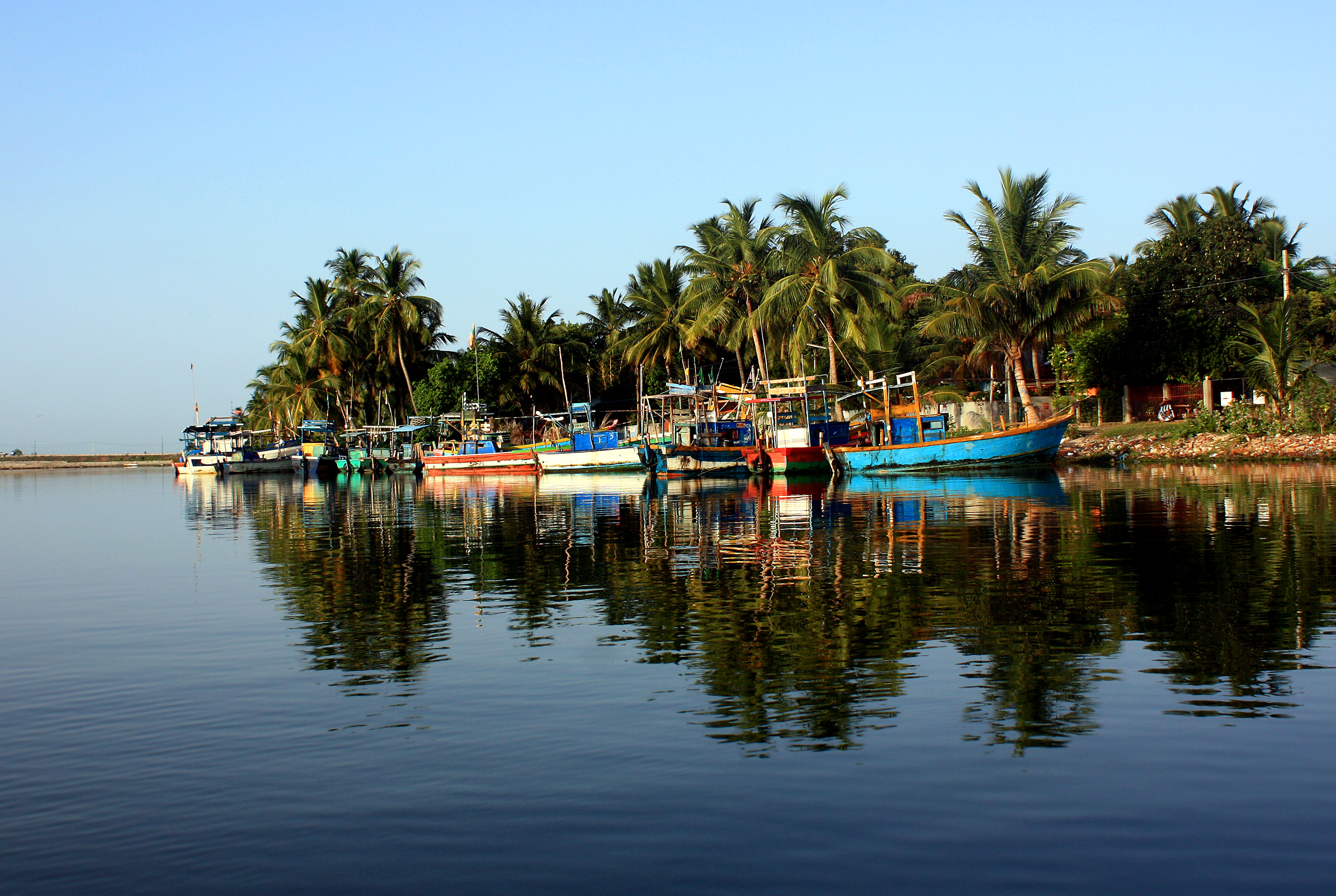 Fishing boats in Batticaloa lagoon, Sri Lanka. Fishing is the main industry in the region.